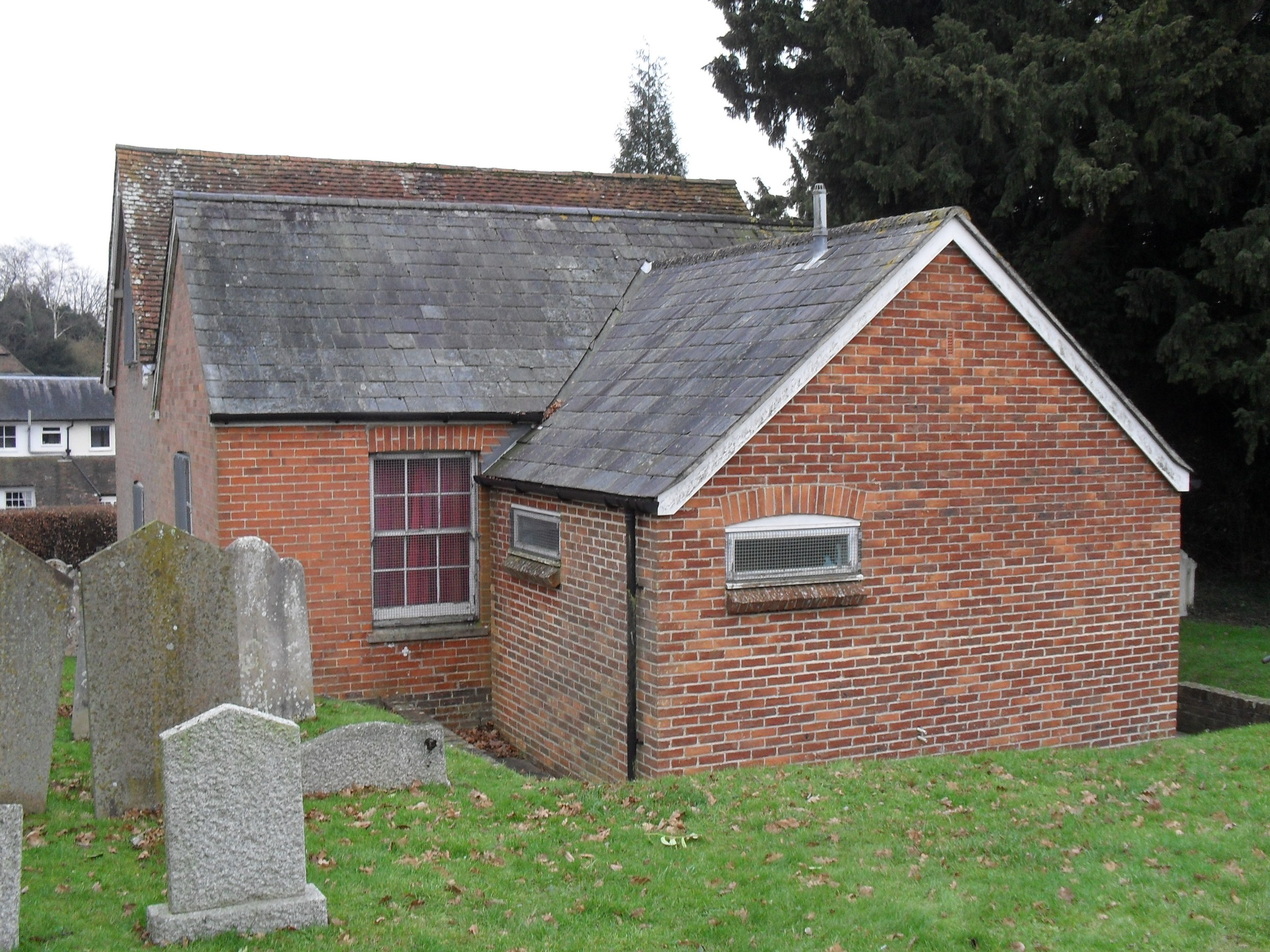 The rear elevation of Billingshurst Unitarian Chapel, High Street, Billingshurst, District of Horsham, West Sussex, England. Founded in the 18th century as a General Baptist chapel. Listed at Grade II by English Heritage (IoE Code 299110)